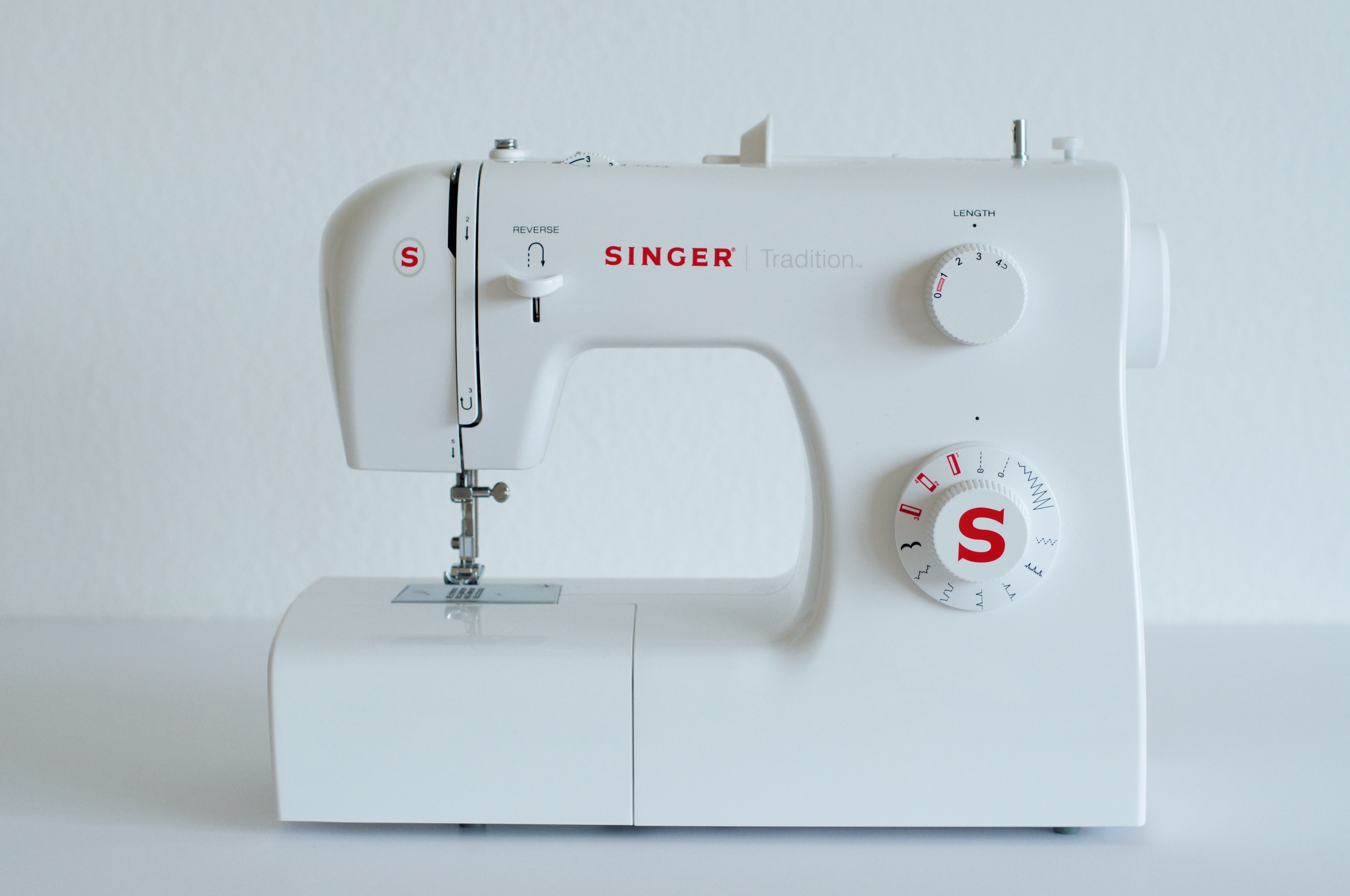 This is a photo of the electric sewing machine from Singer.